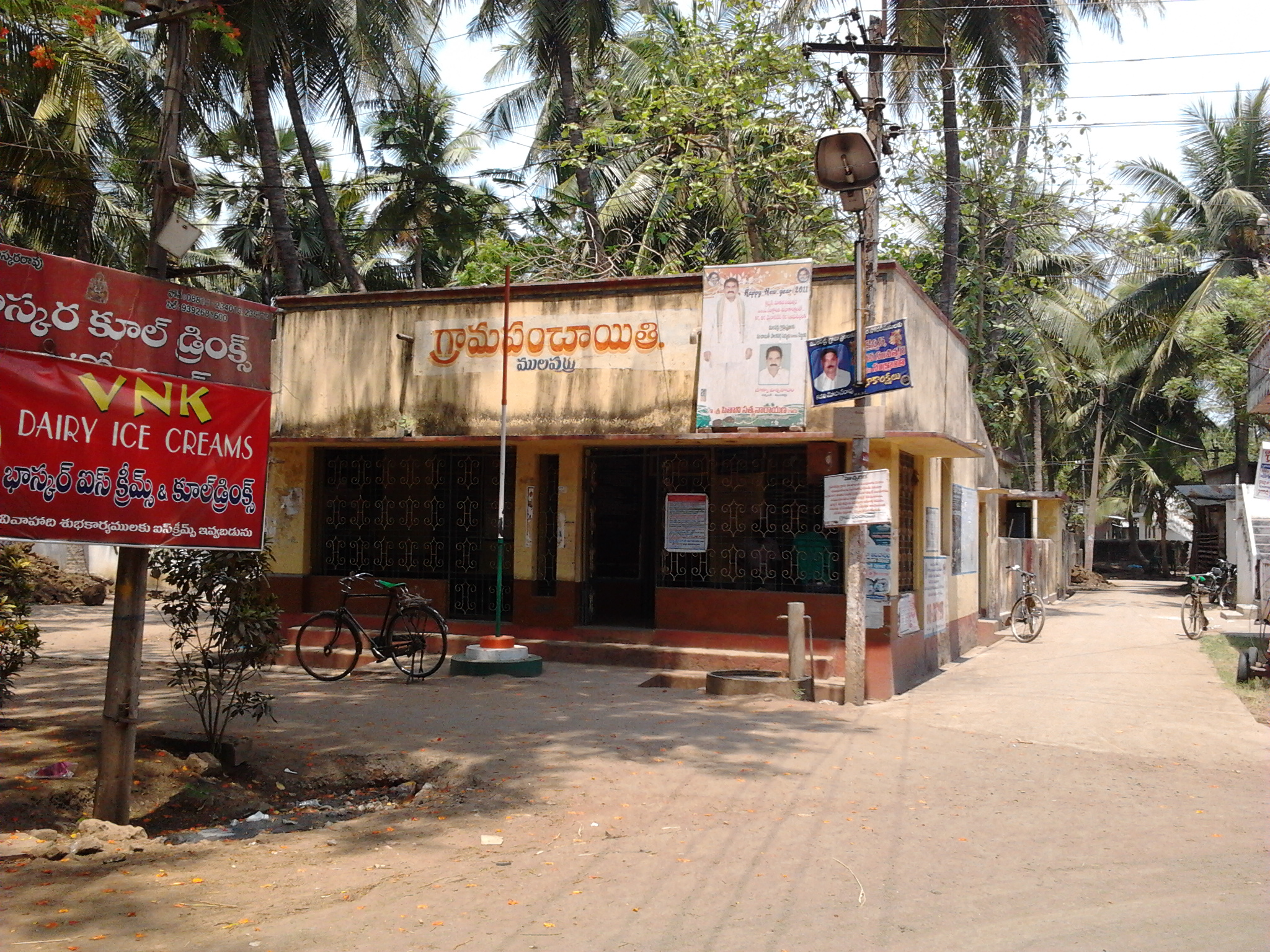 Mulaparru - A.P. Village of Westgodavari District